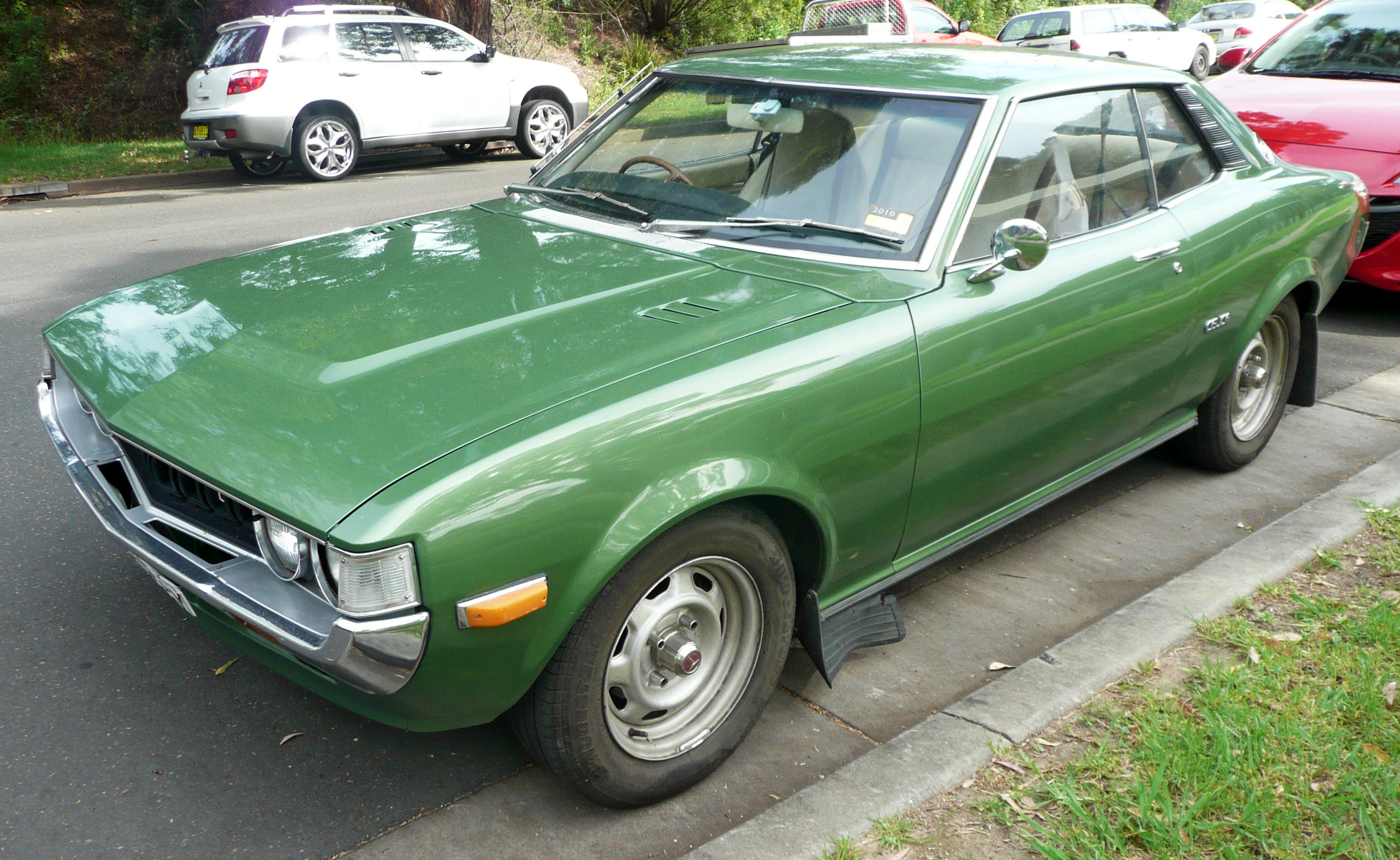 1976–1977 Toyota Celica (RA23) LT hardtop. Photographed in Sutherland, New South Wales, Australia.